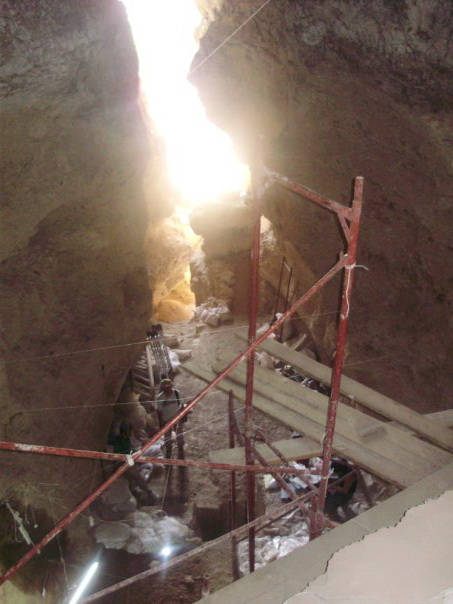 Azykh (Azokh) Cave. Hadrut district, Republic of Mountainous Karabakh (Artsakh) / Khojavend district, Azerbaijan)